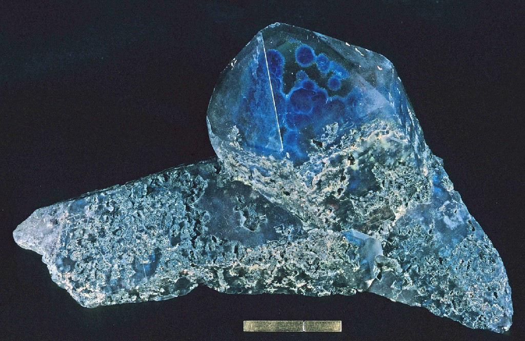 Ajoite in Quartz - Locality: Messina mine, Messina District, Limpopo Province, South Africa - At one time this specimen was in the collection of Earl Calvert (1975) - Scale at bottom of image is one inch with a rule at one cm.